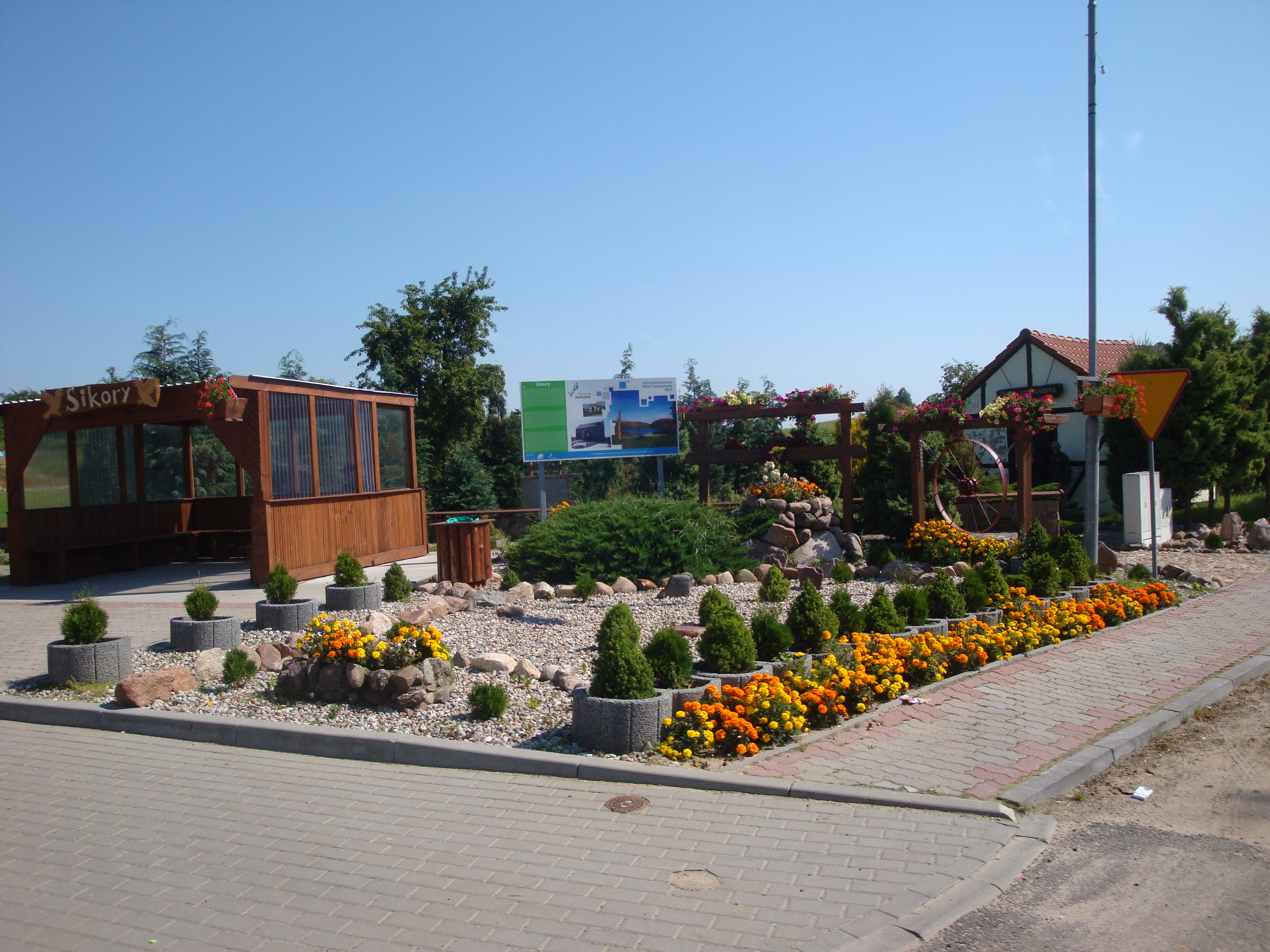 Sikiory - village in Drawsko County, Wet Pomeranian Voivodeship, Poland.